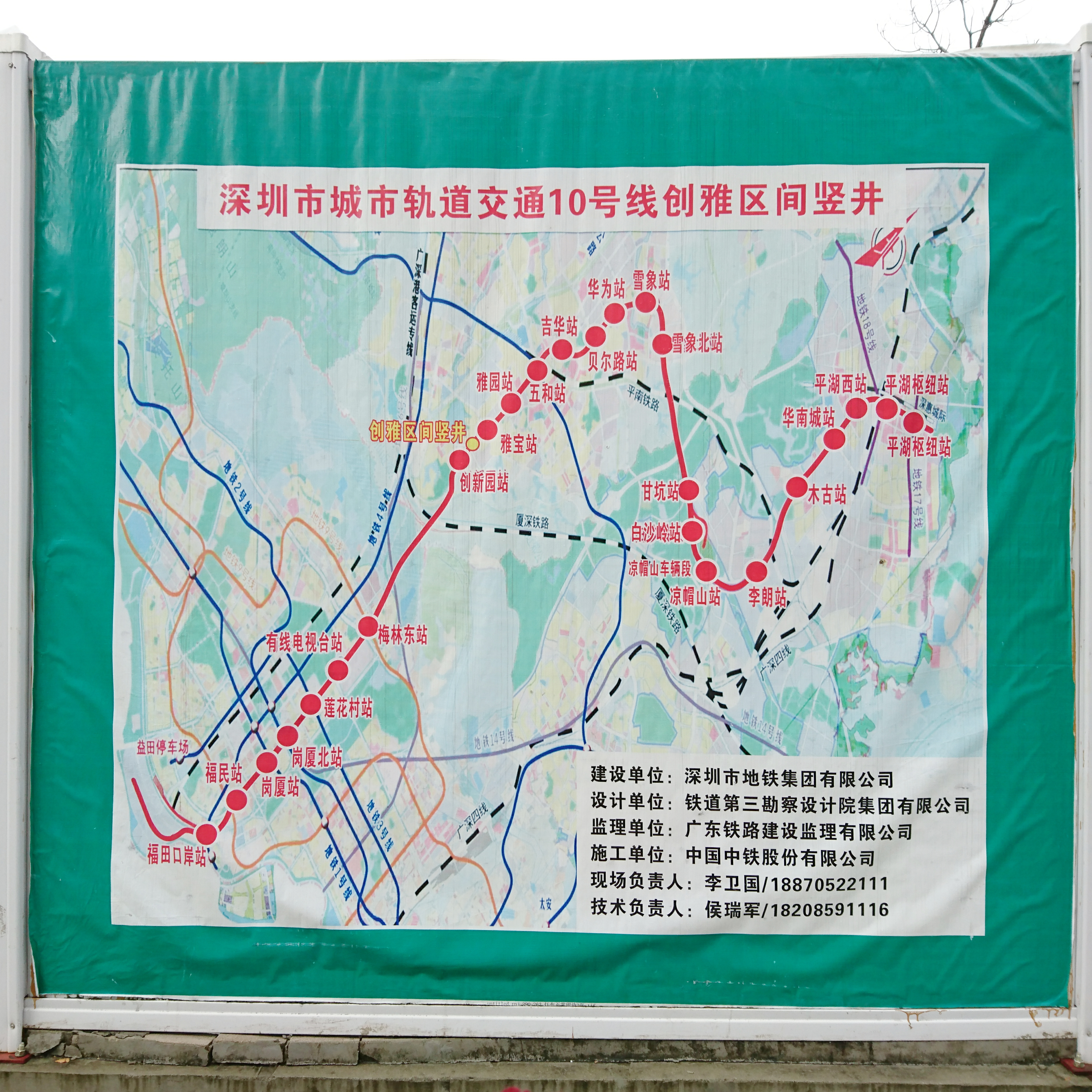 Map of Line 10, Shenzhen Metro